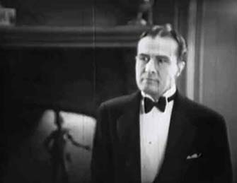 Lester Vail in the 1932 film, Big Town.